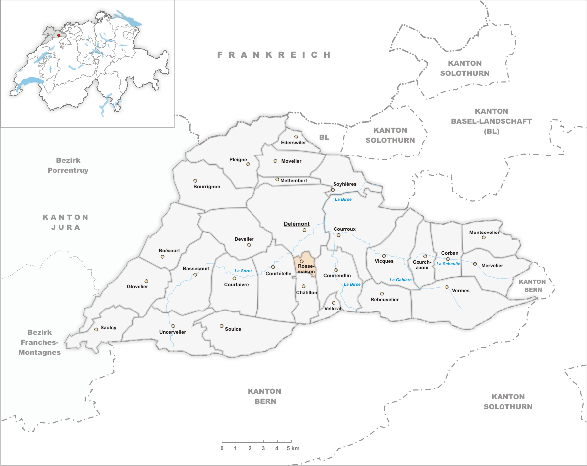 Municipality Rossemaison